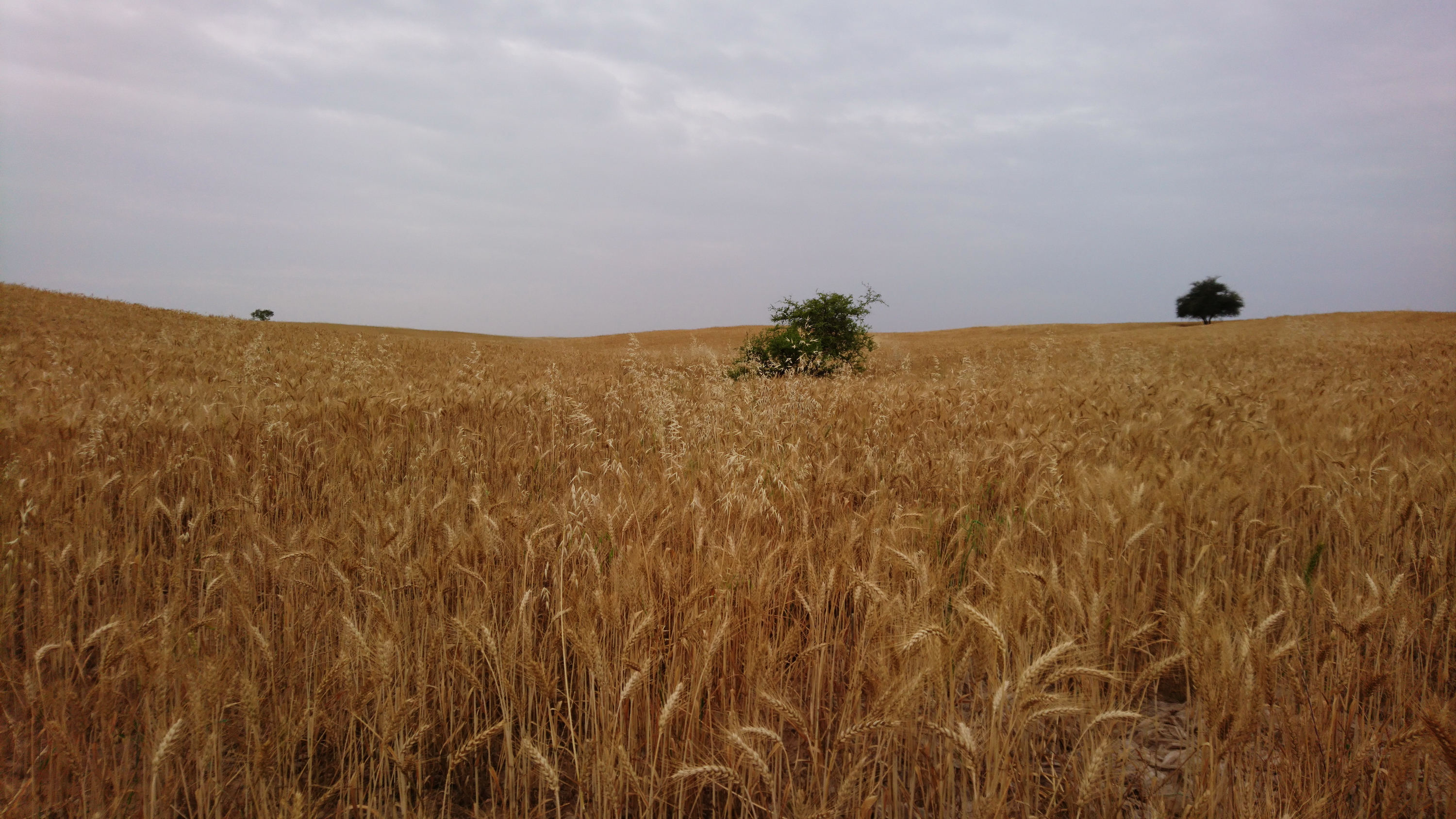 Wheat Farm in Behbahan, Iran